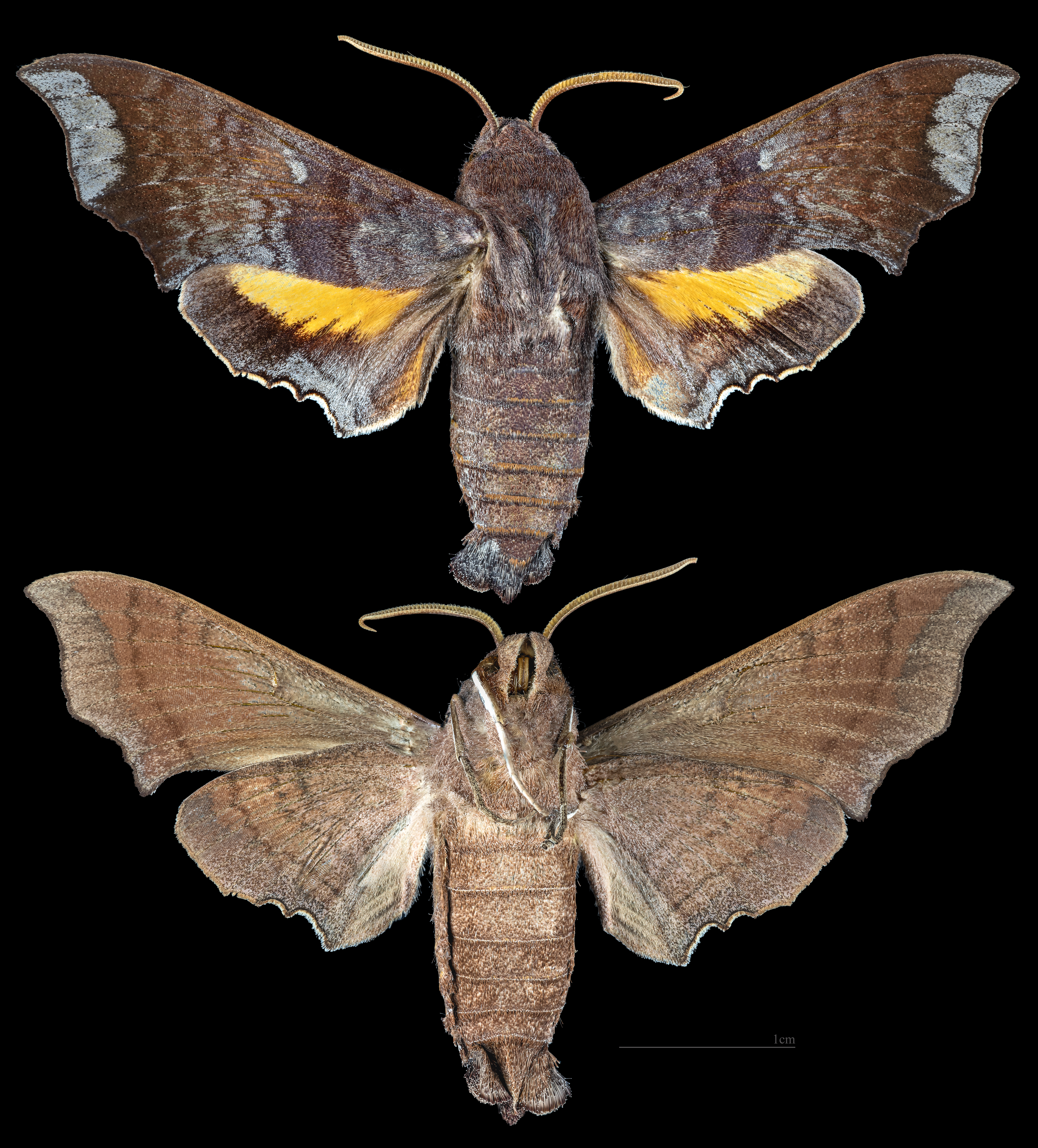 Perigonia leucopus - Two views of same specimen Collection of the Mathematician Laurent Schwartz